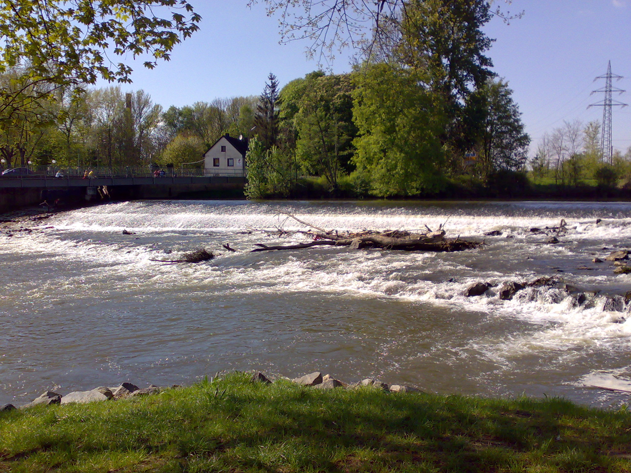 Dam of the river Agger in Troisdorf, Germany.